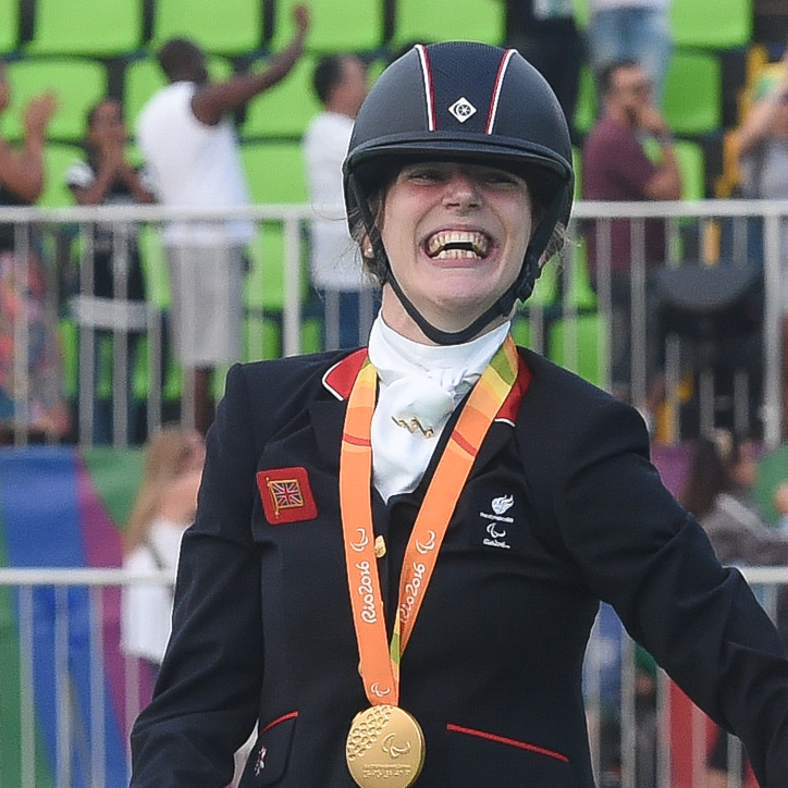 1-Rio de Janeiro - Sophie Christiansen Paralympics Rio 2016 (Tomaz Silva/Agência Brasil)